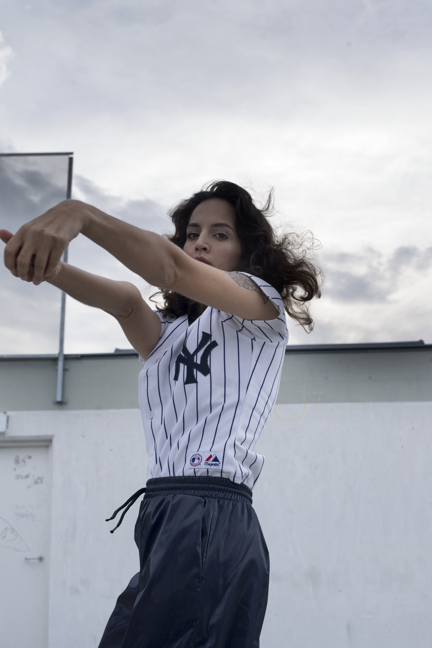 Pressefoto der Rapperin Ebow